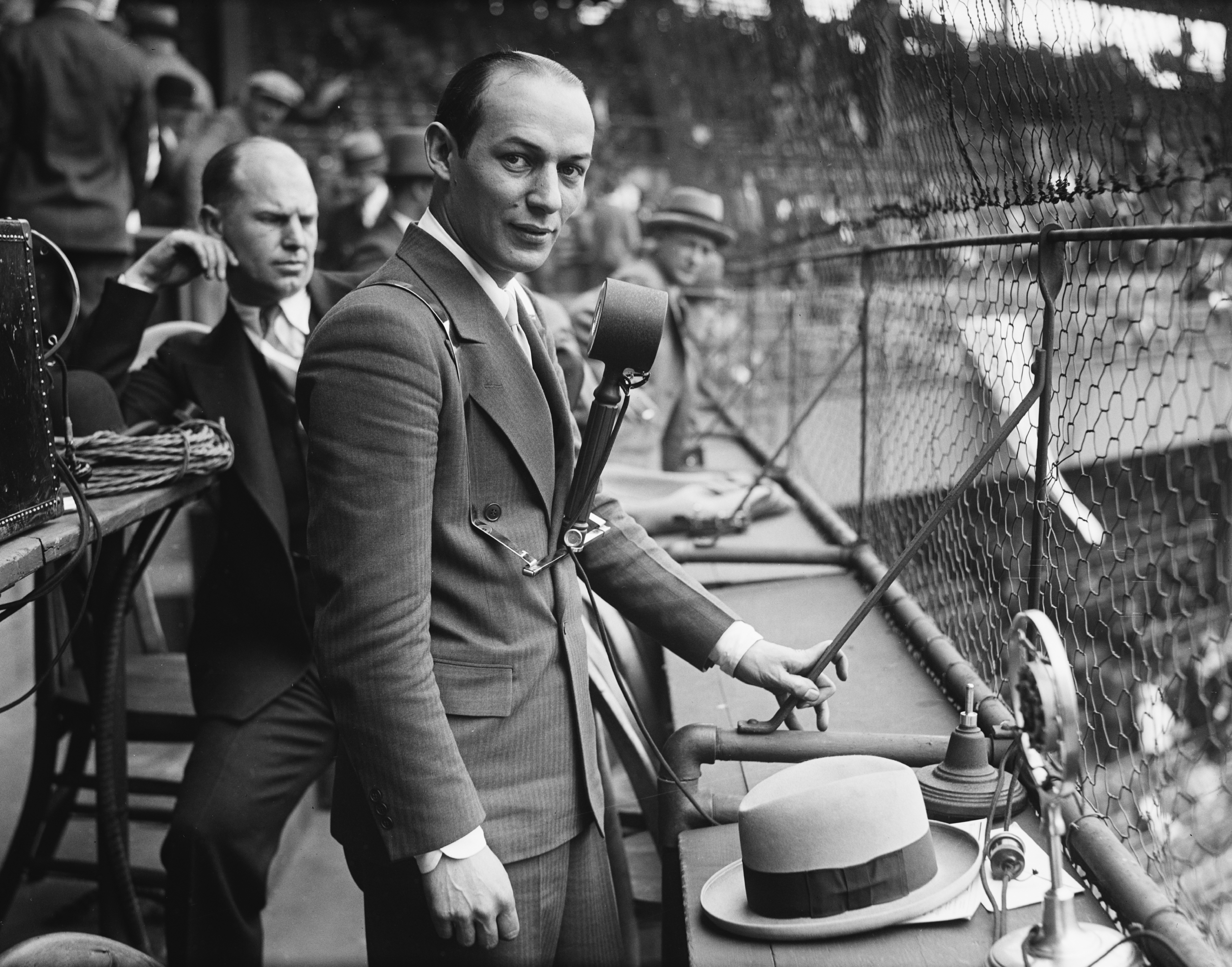 Ted Husing of CBS